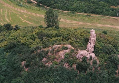 Mátraderecske, Hungary, aerialphotography